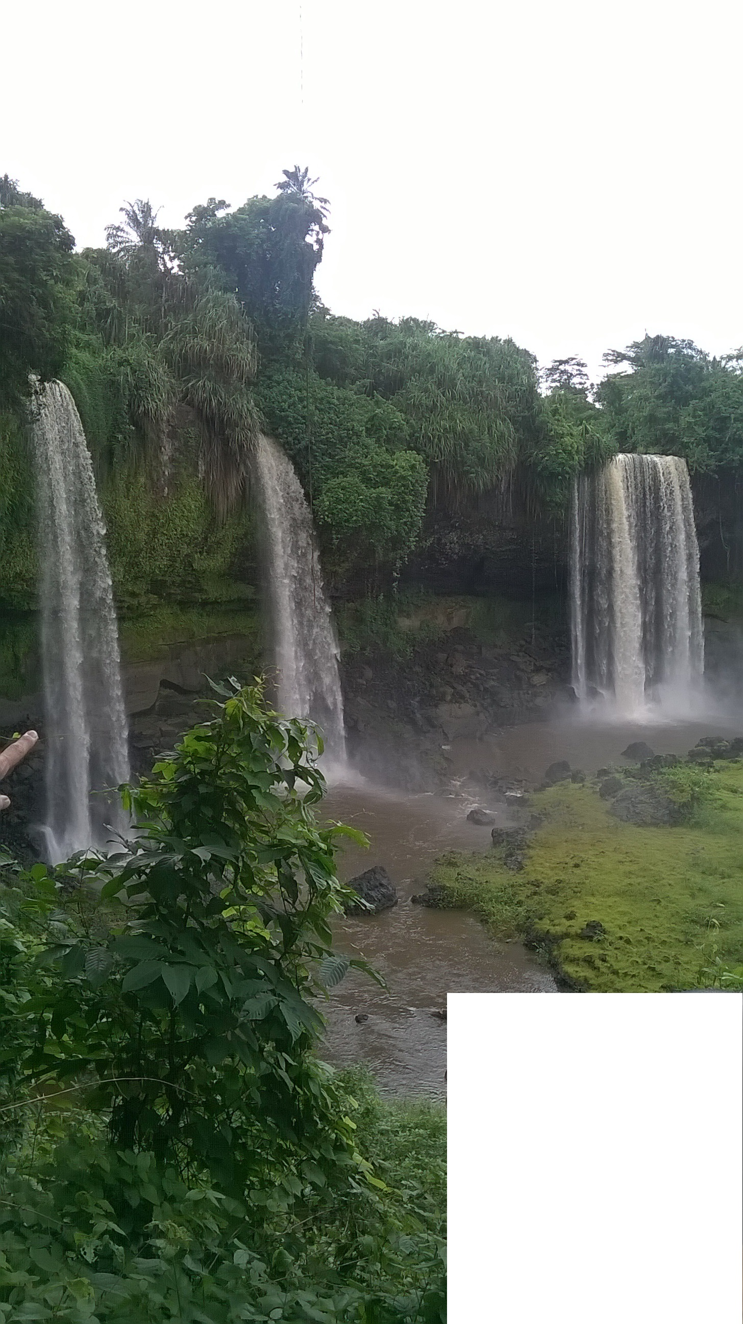 Agbokim Waterfallsin Ikom, Cross Riverstate, Nigeria